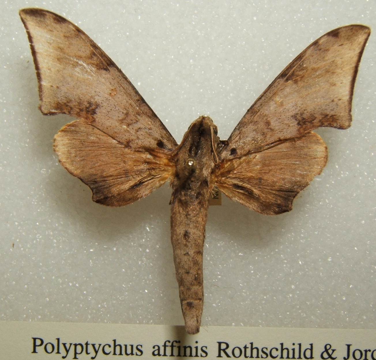 Polyptychus affinis adult taken by Shawn Hanrahan at the Texas A&M University Insect Collection in College Station, Texas.